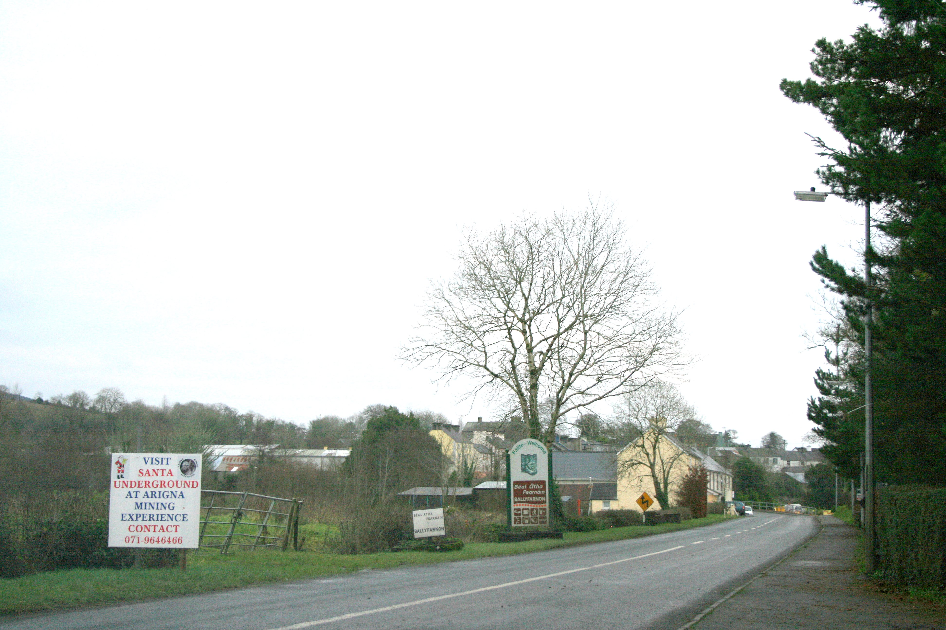 Ballyfarnon, County Roscommon, Ireland. (Approaching from the northwest on the R284)